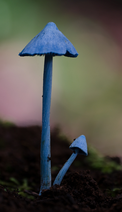 Entoloma hochstetteri Location: Swans Crossing State Forest, New South Wales, Australia Notes: This fungi was photographed at Swans Crossing Forestry reserve. The fungi stands about 70mm in height and is a mature specimen. Aging causes loss of blue colour saturation, and dark spots appear around the edges of the cap and outermost gills. I have not been able to find a record of ths fungi in my Australian references, but Clive shirley has a specimen on his excellent website. It appears to be free from insect attack as far as I have noticed.I have photographed several of these over a period of time, and have noticed that the stem has slowly rotating grooves extending up from the base to the top of the stipe where it meets the cap. I will go through my records for previous images and post them when I locate an image that is worth showing. Clive also agrees with me about the loss of saturation in the fungi with age. I have only found this fungi in single appearances, where Clive has seen them in groups. This may be native to Australia.